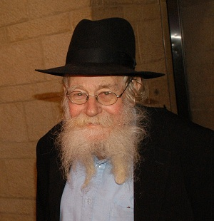 picture from the celebration for Talmud completion 2010